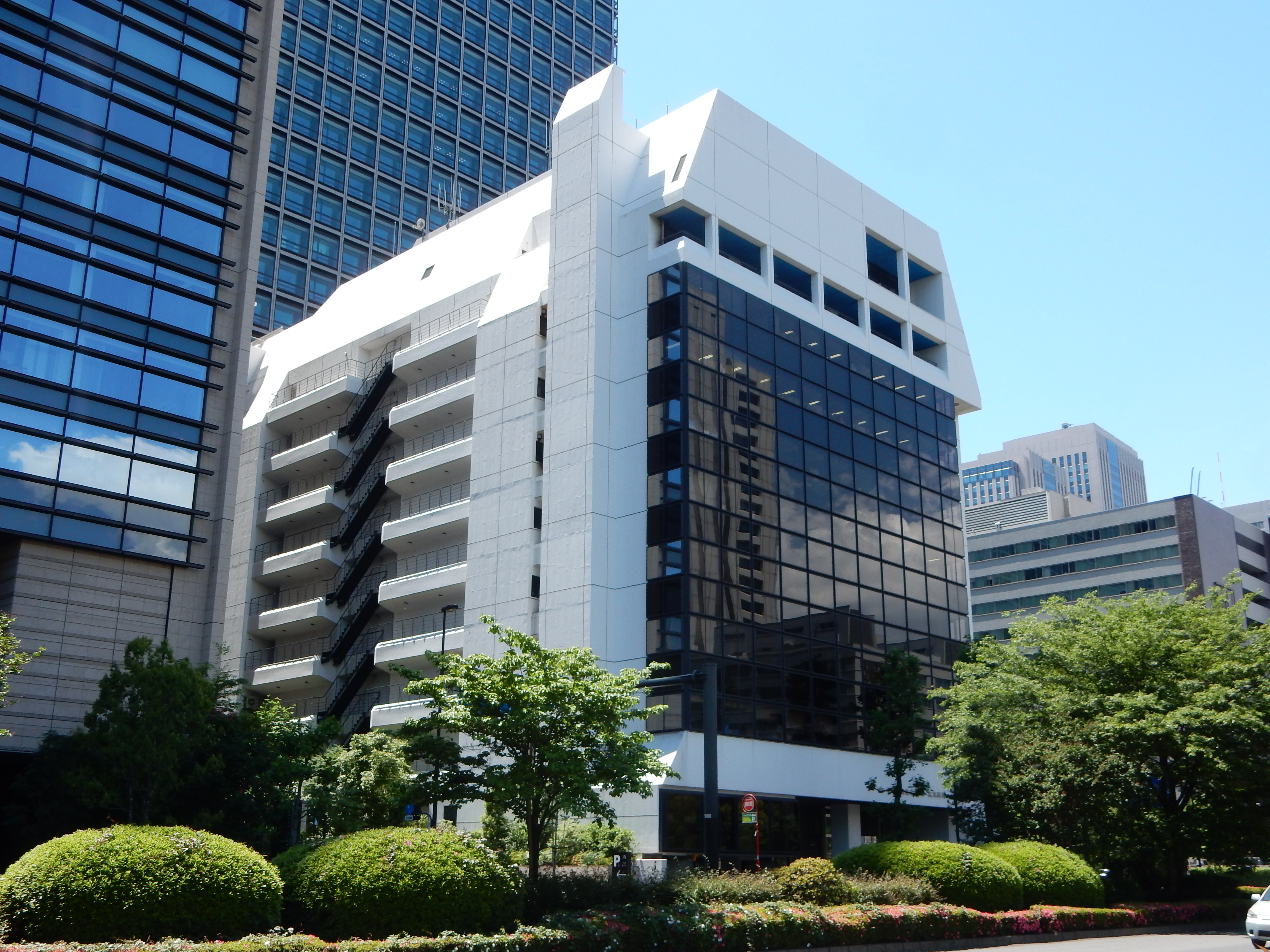 Hibiya Chunichi Building (日比谷中日ビル), at 2-1-4 Uchisaiwaicho, Chiyoda, Tokyo, Japan